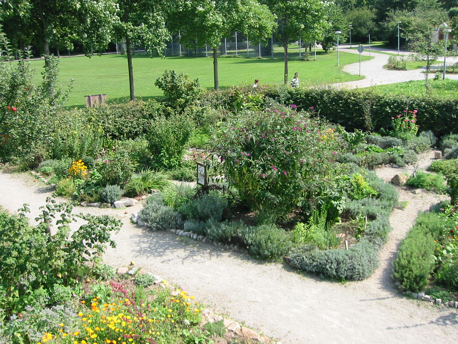 Organic garden of the "Ökostation" (Ecostation) in Freiburg, Baden-Württemberg, Germany